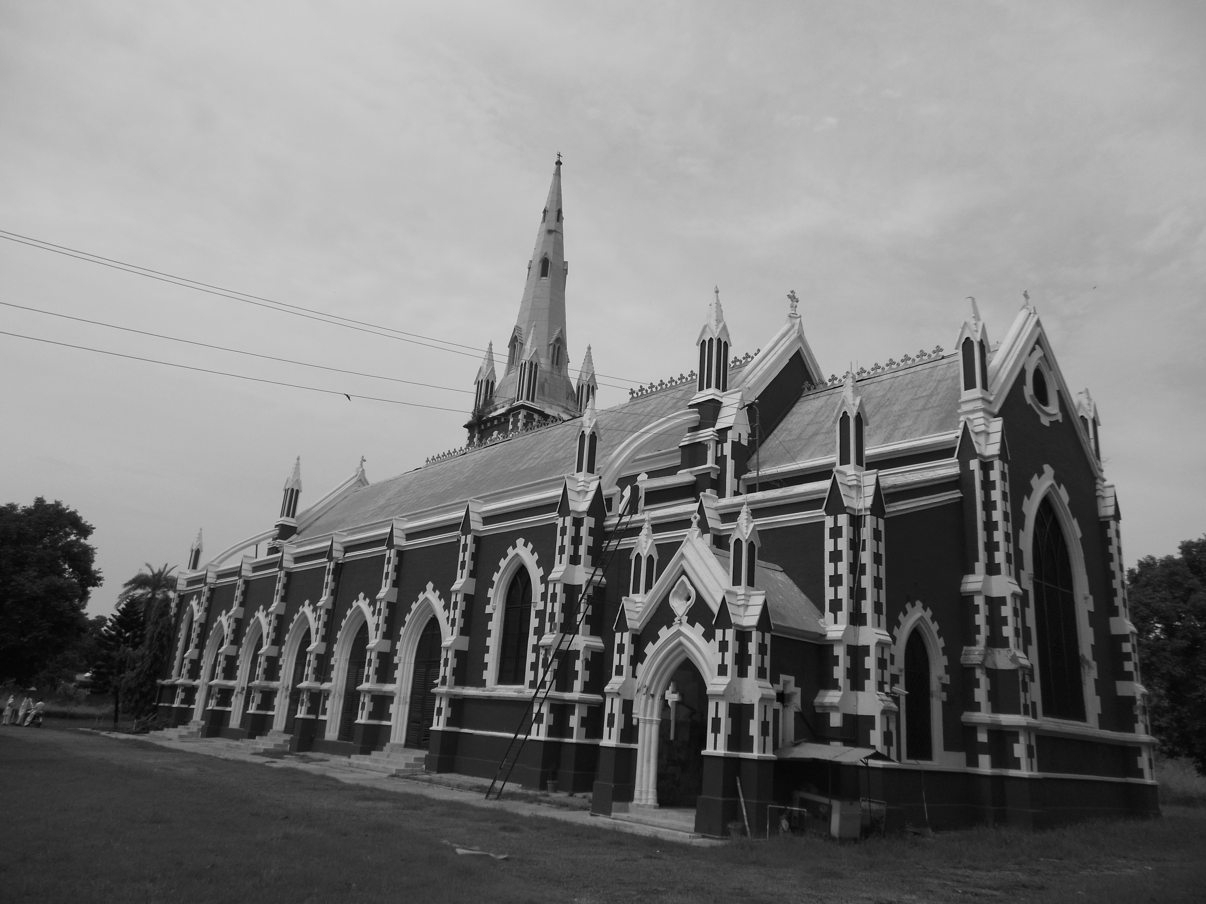 Sialkot Cathedral - Outside of the Sialkot Cathedral located in Sialkot Cantt, Pakistan. This is a photo of a monument in Pakistan identified as the PB-U-60